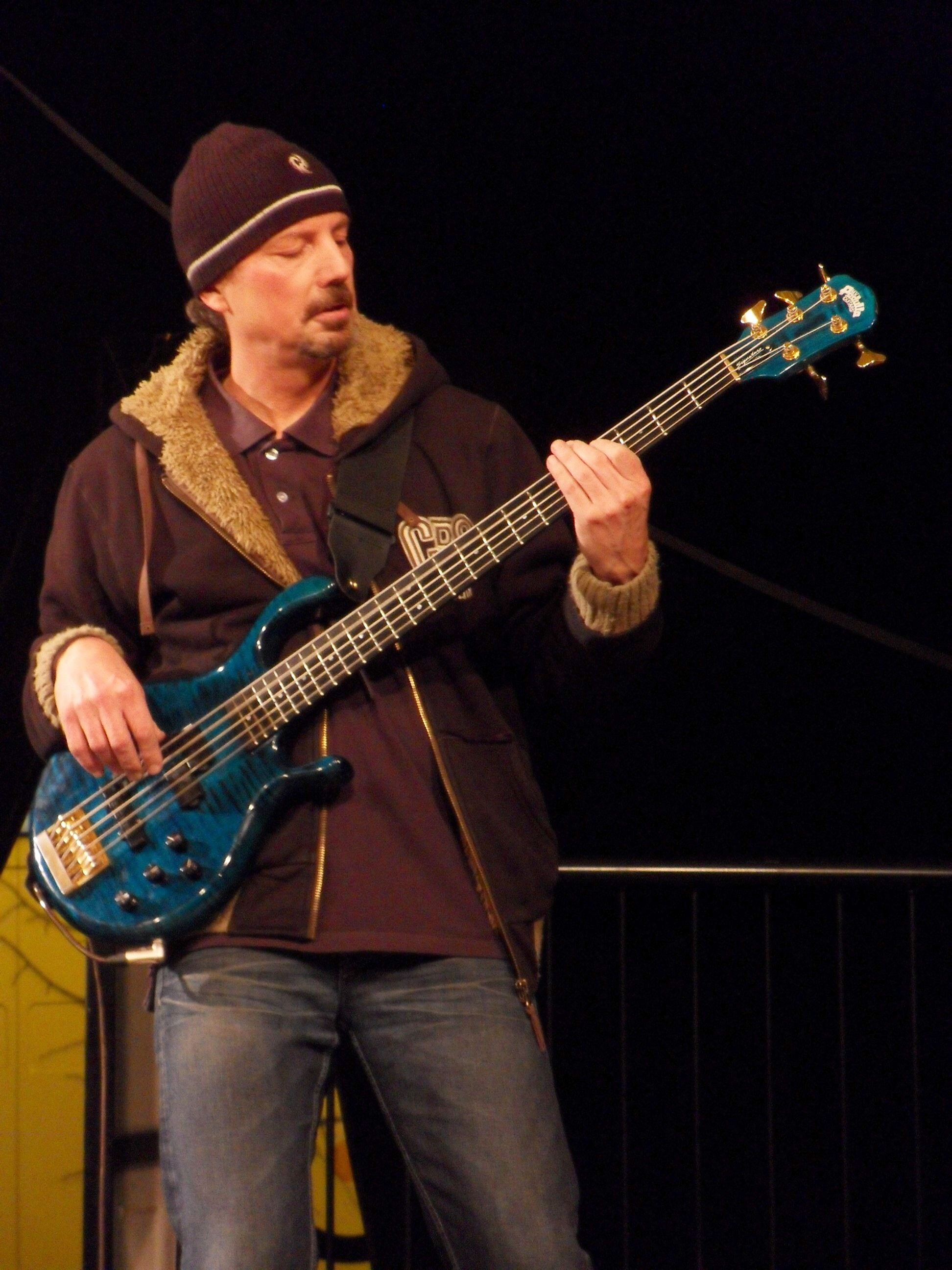 Dalibor Dunovský, bass guitarist of czech rock band E-Band, Brno, Czech Republic